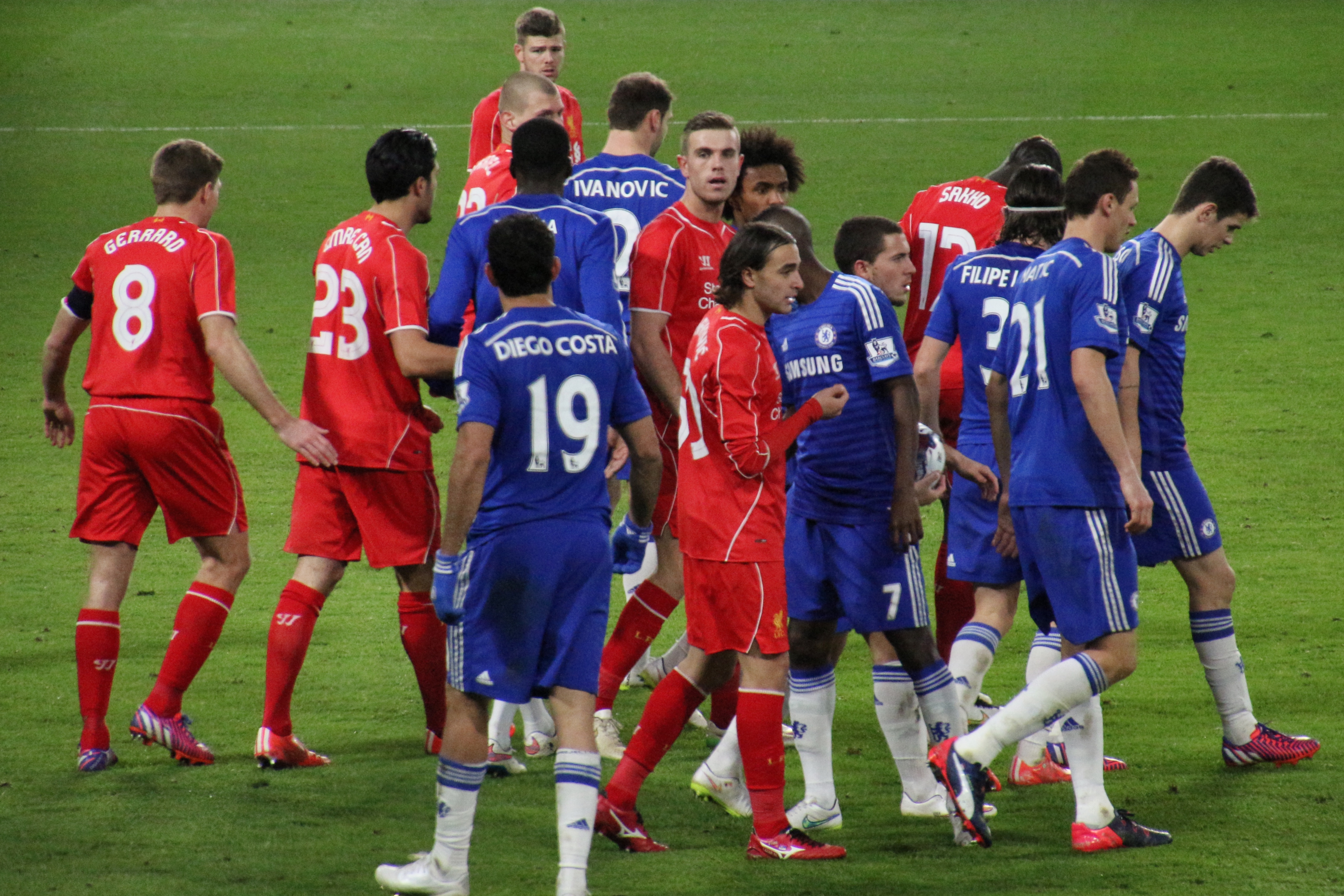 Chelsea 1 lLiverpool 0 (2-1 agg) Capital One Cup semi final 2nd leg On our way to Wembley!